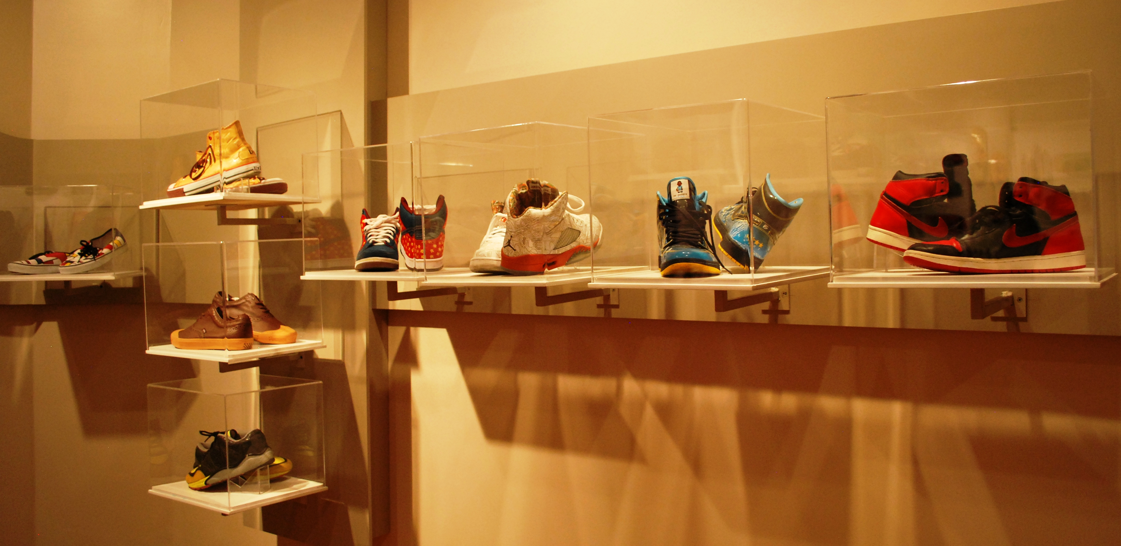 Part of the collection of sneakers and shoes of Edgar Alejandro Cortes at the Museo del Objeto del Objeto in Mexico City